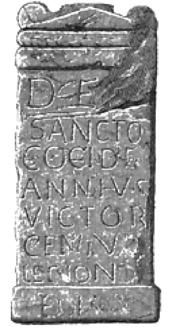 Altar dedicated to Cocidius, from Annius Victor, a legionary centurion, found before 1863. Now stored by English Heritage at Helmsley Archaeological Store.